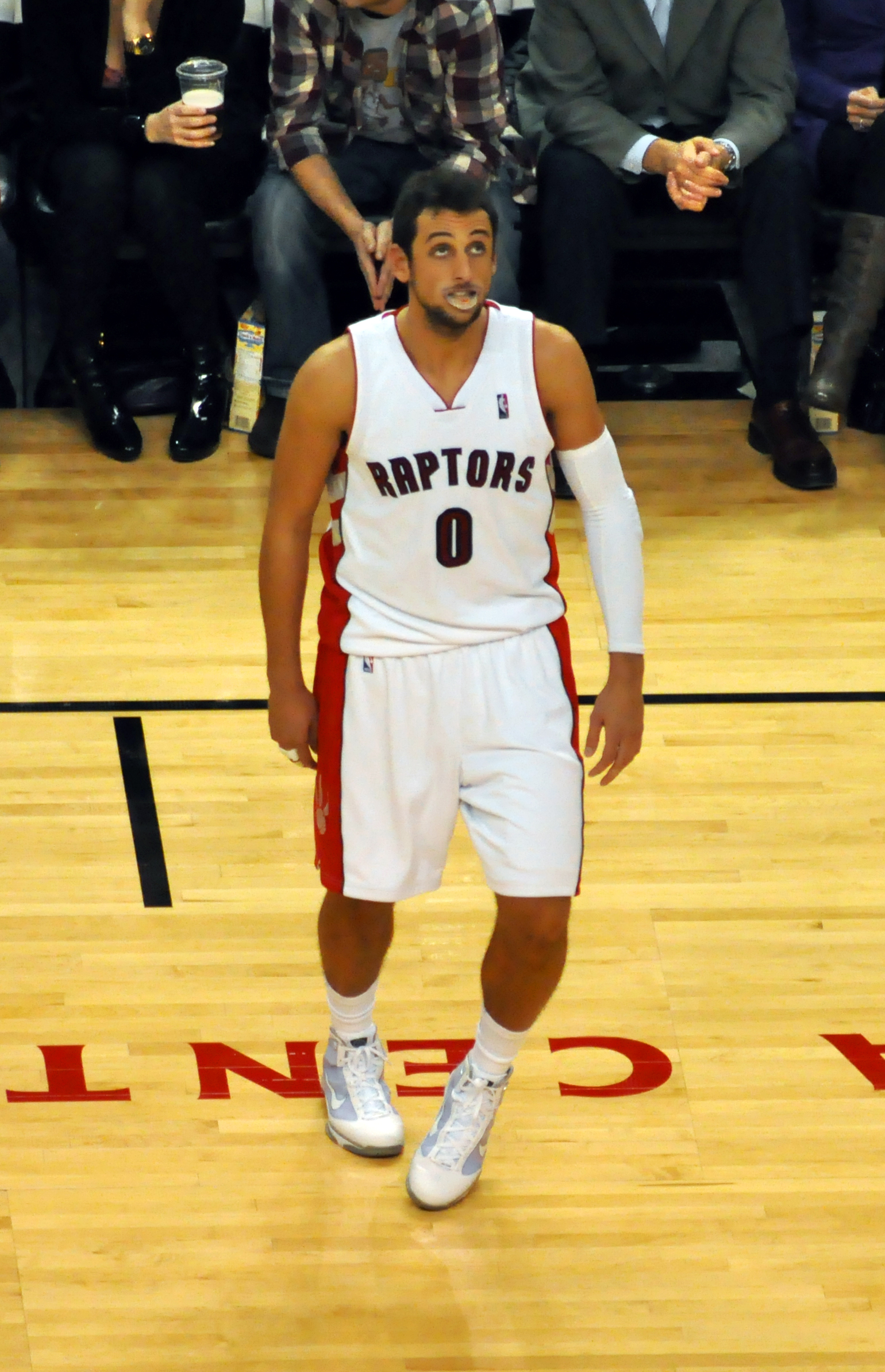 Marco Belinelli Toronto Raptors